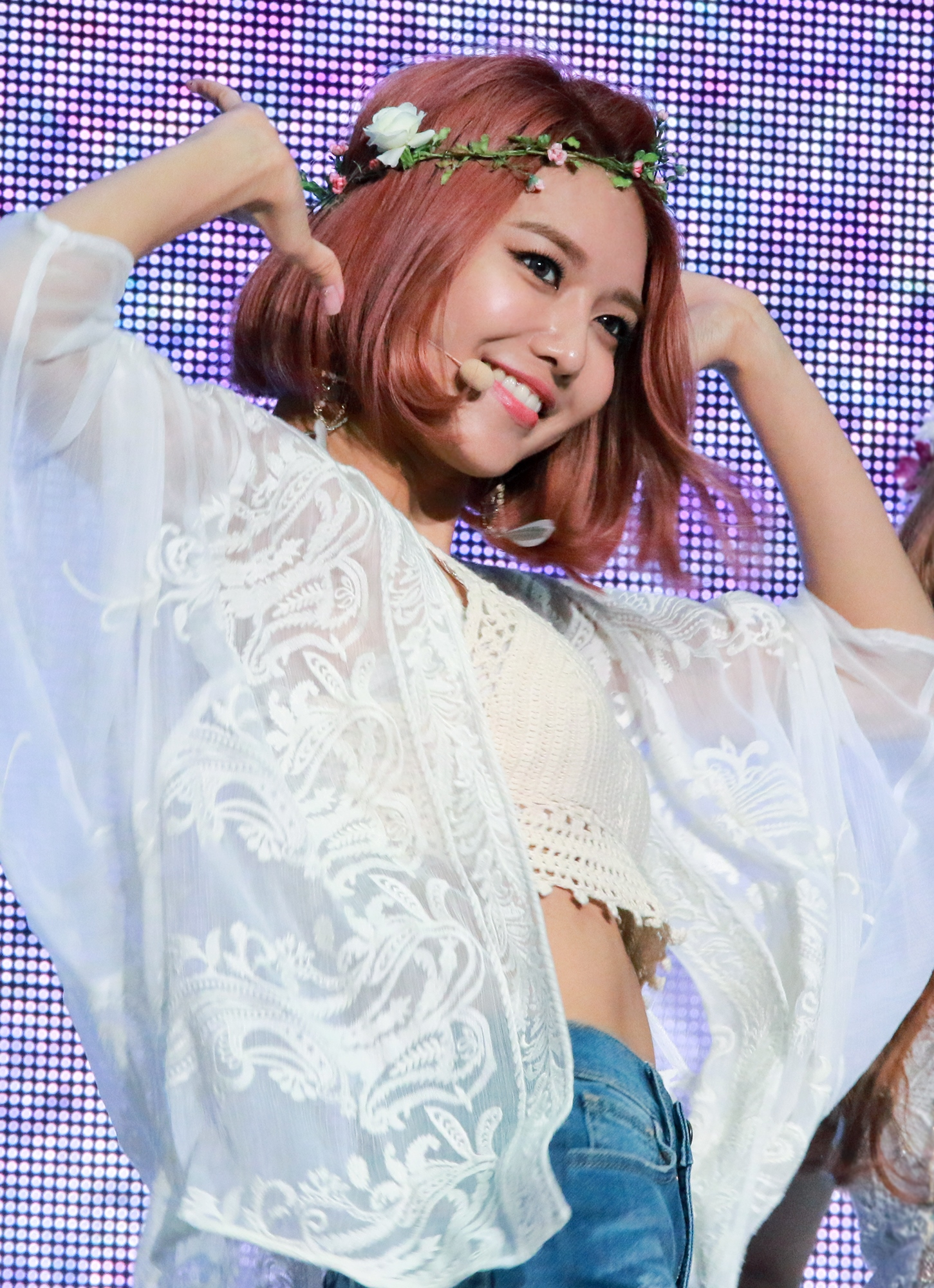 Sooyoung at Party Showcase on July 7, 2015.